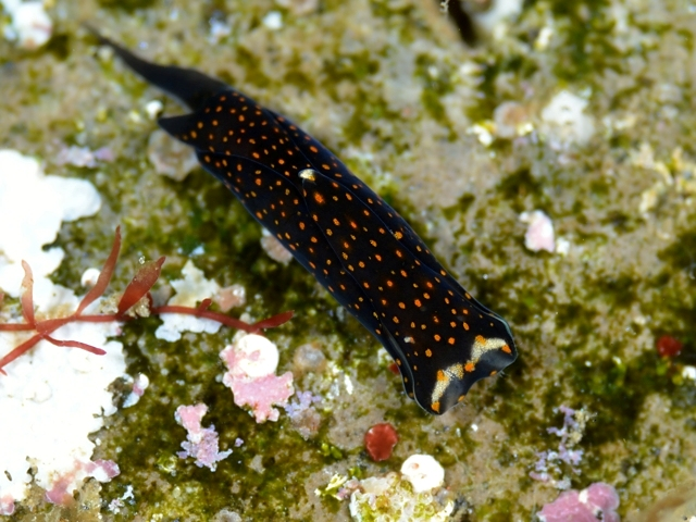 Chelidonura fulvipunctata. Depth: 14 m.